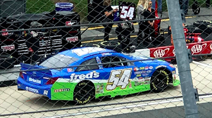 Todd Gilliland on pit road at Dover International Speedway in 2018.